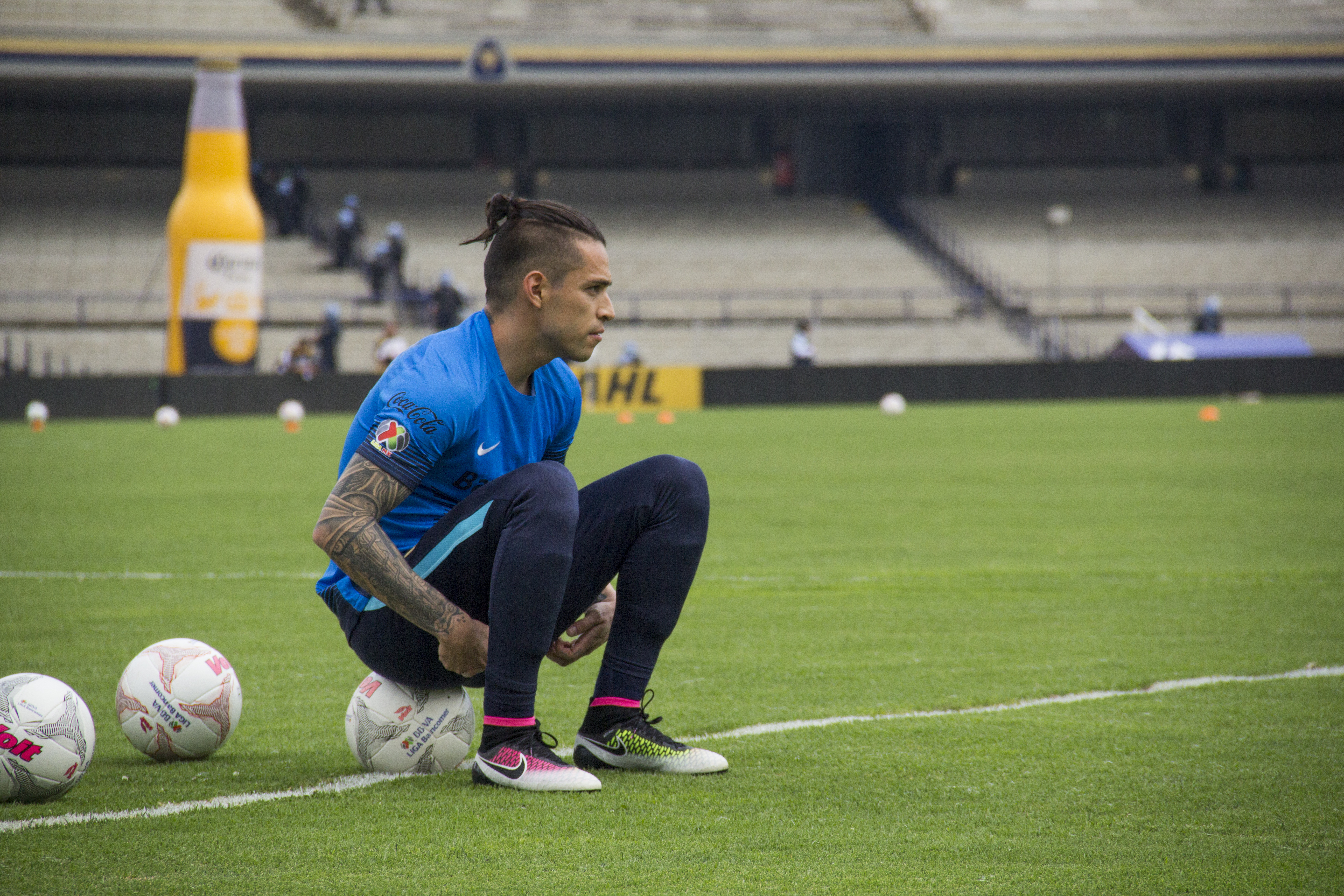 Pumas vs León